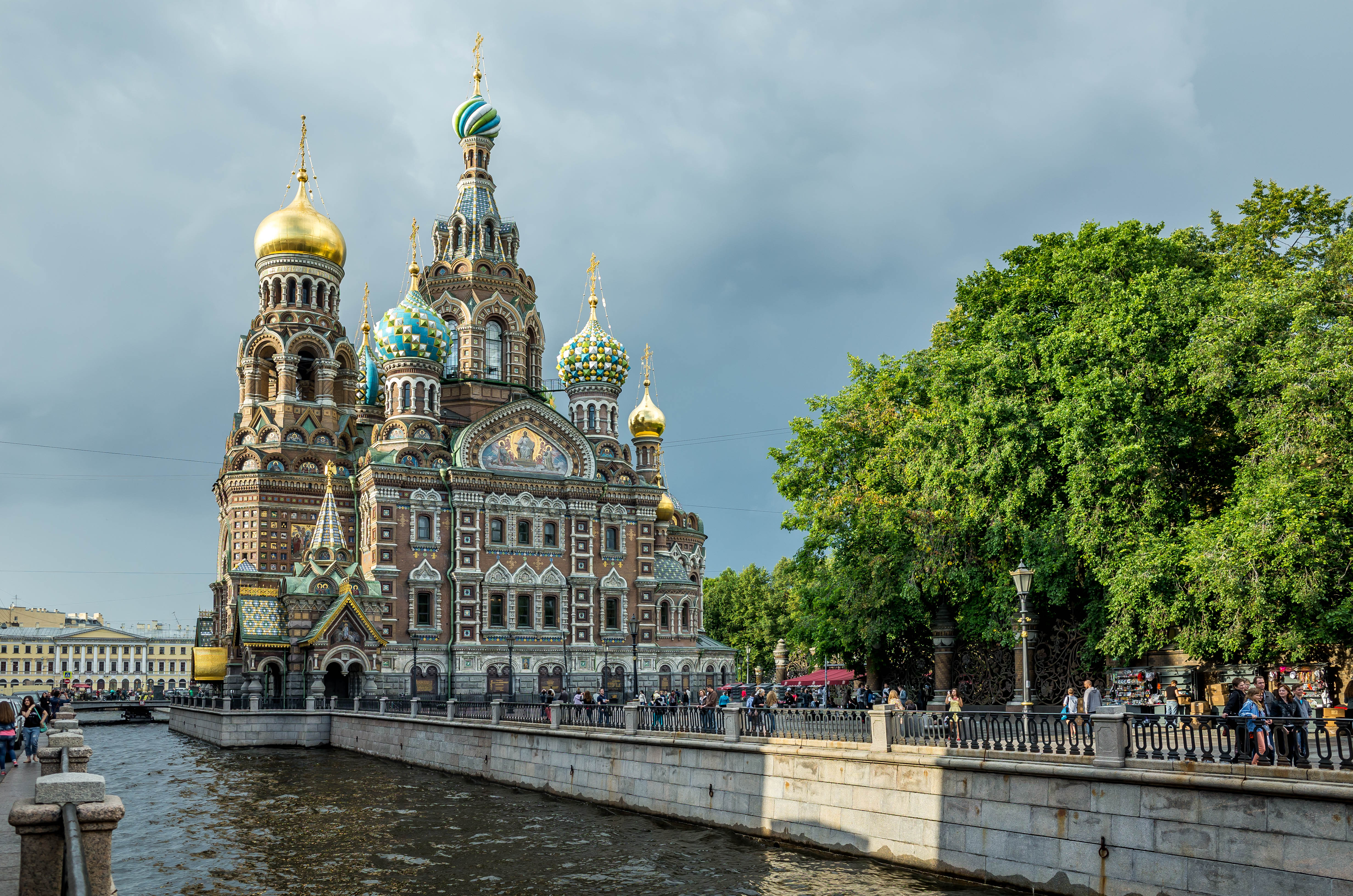 Church on the Spilled Blood - seen from the canal (the typical tourist photo)